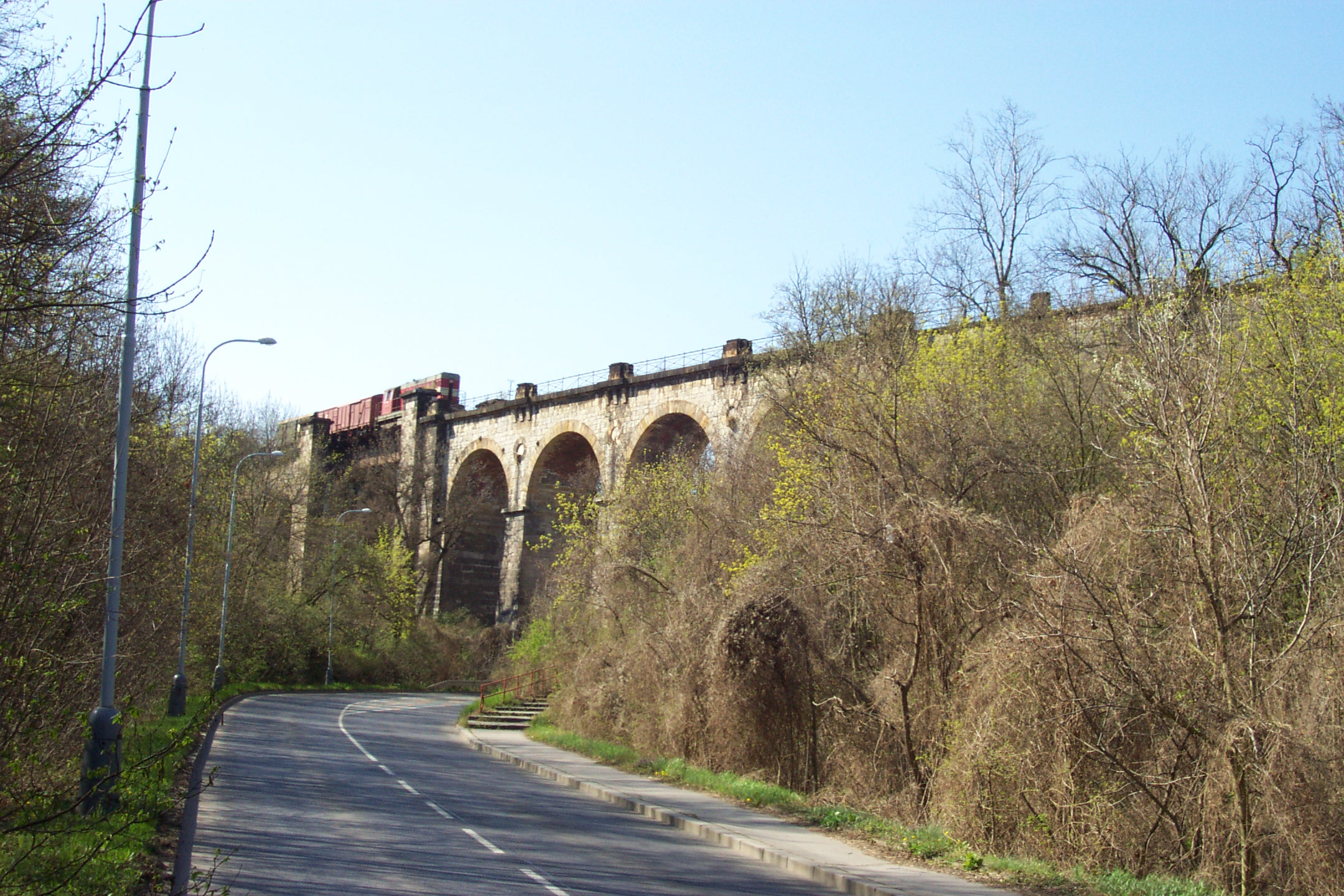 Prague, Prokopské údolí valley, rail bridge (mid 19th century)